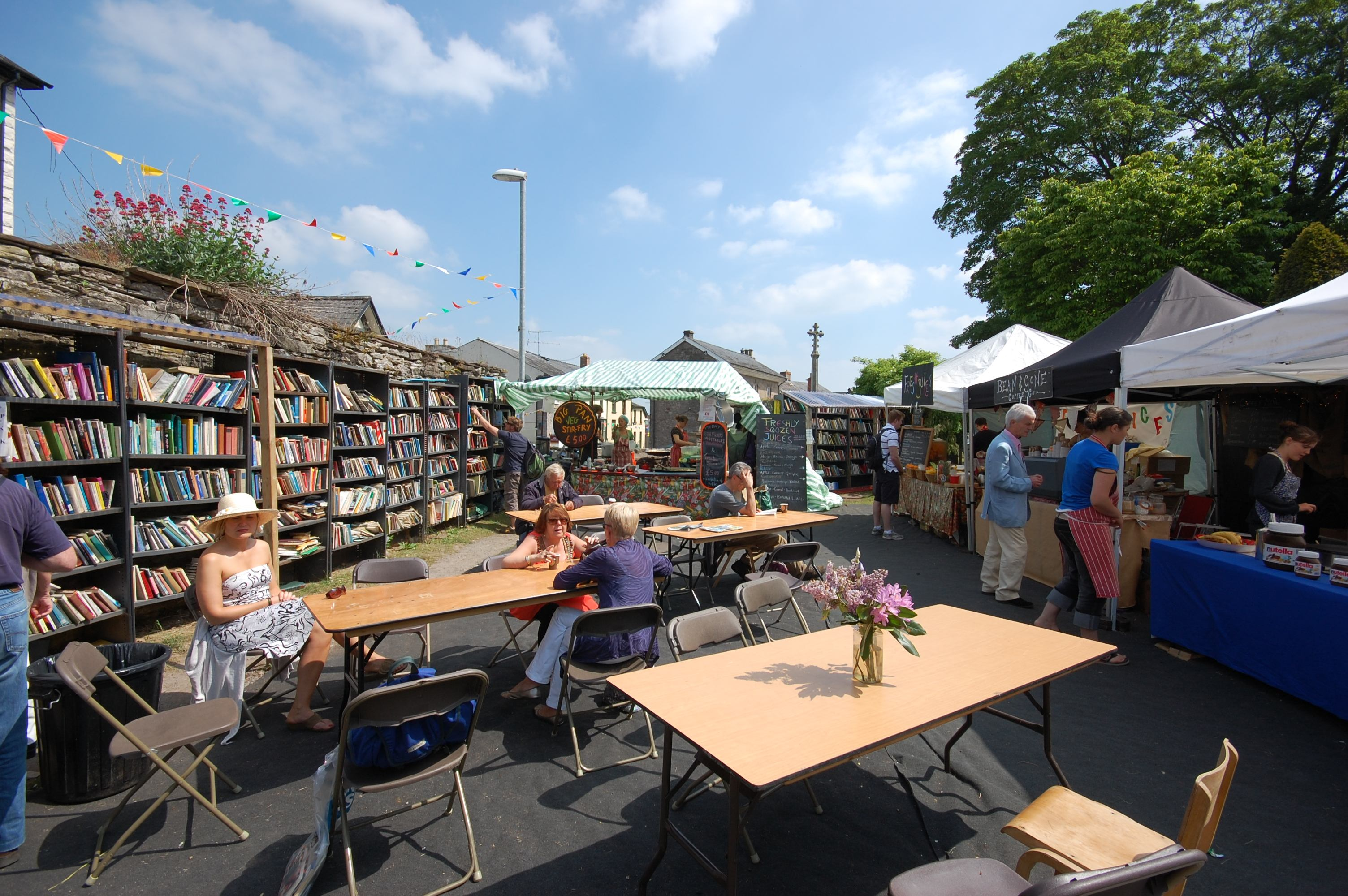 Hay Castle shop 2010